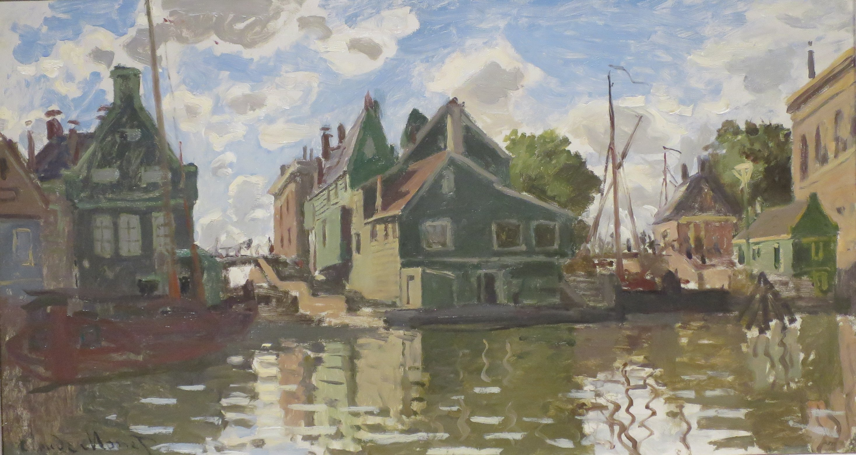 Canal à Zaandam by Claude Monet, 1871, oil on canvas, long-tern loan to the High Museum of Art